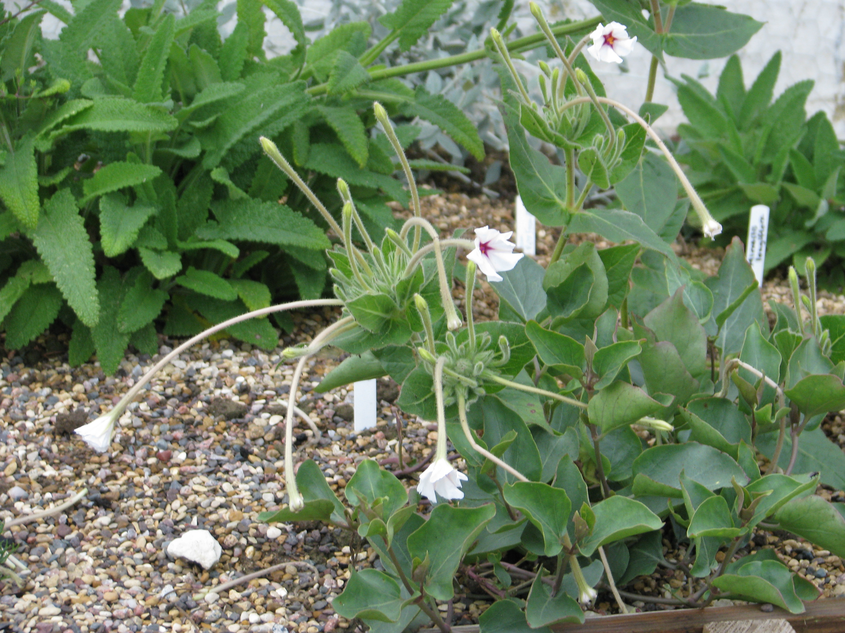 A picture of the whole plant in full flower. Some of that foliage there is M.multiflora though, which hasn't flowered yet.